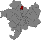 Location of Sant Pere de Riudebitlles in Alt Penedès